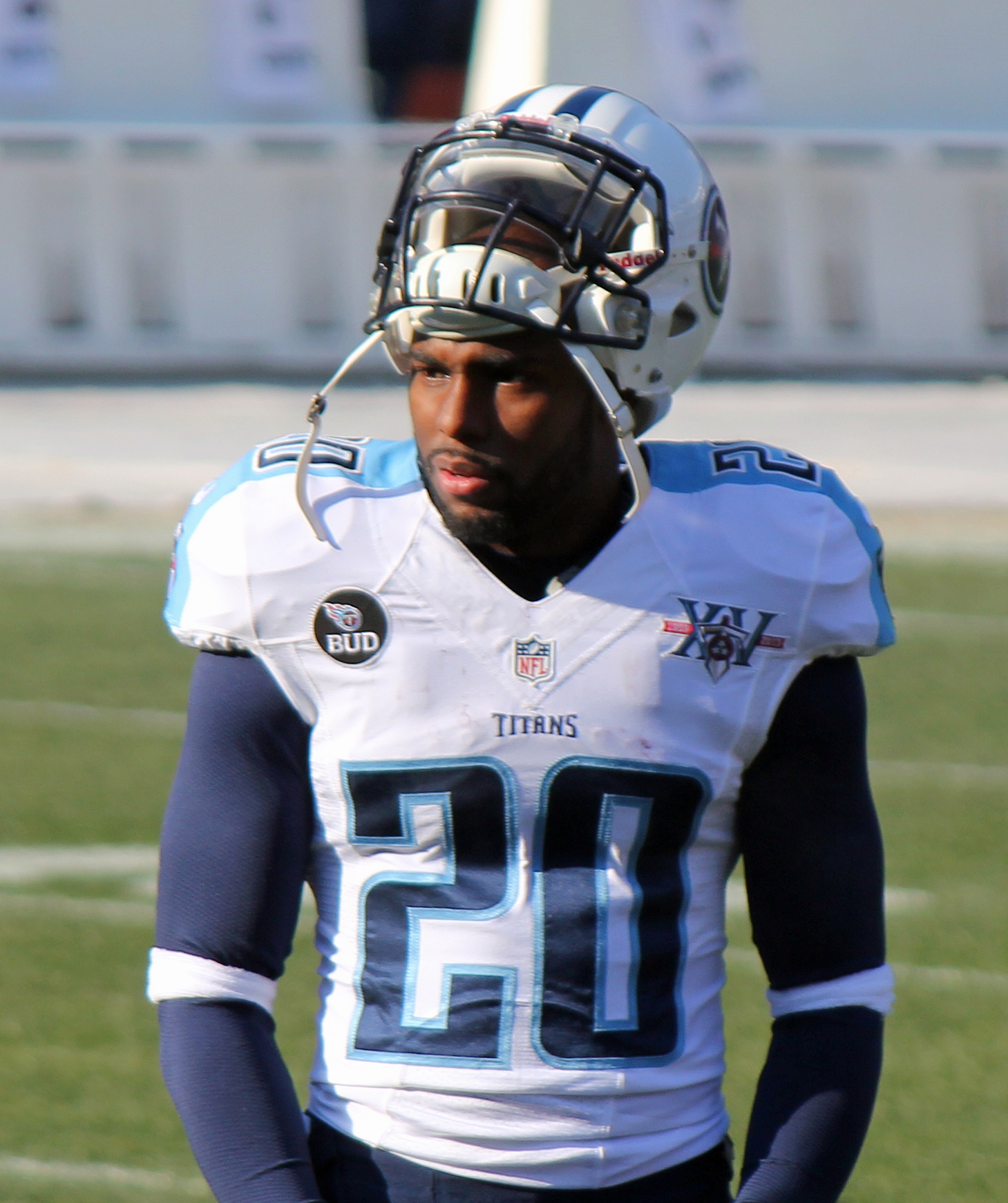 Alterraun Verner, a player on the National Football League.